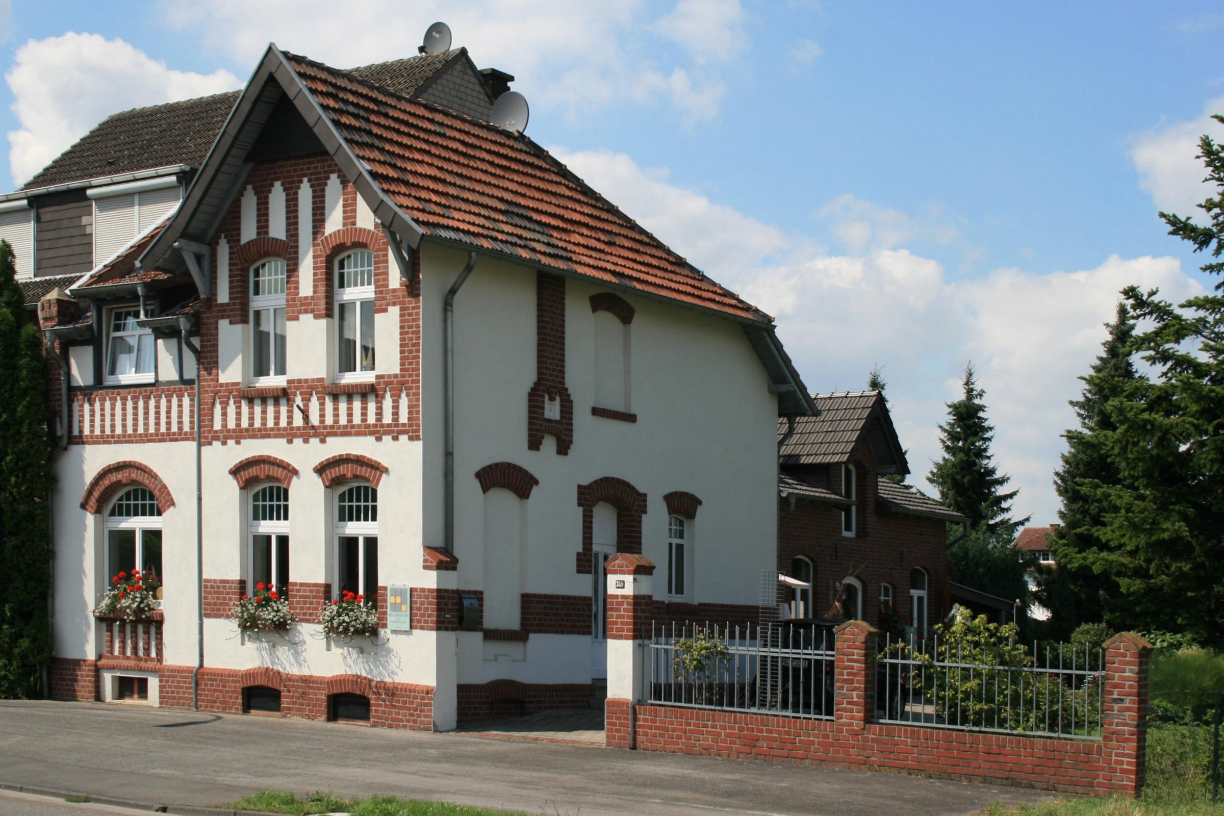 Cultural heritage monument No. St 023 in Mönchengladbach